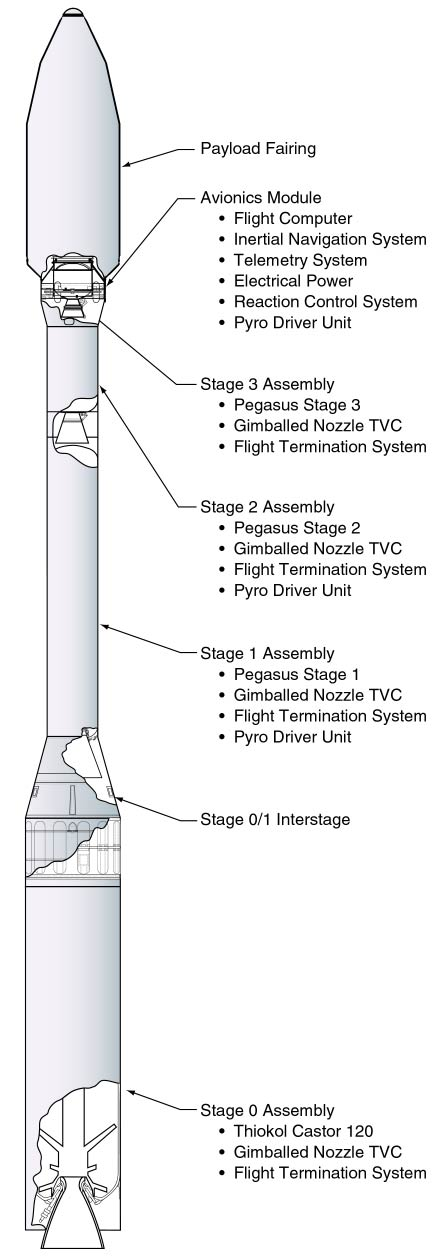 Configuration of the Taurus rocket